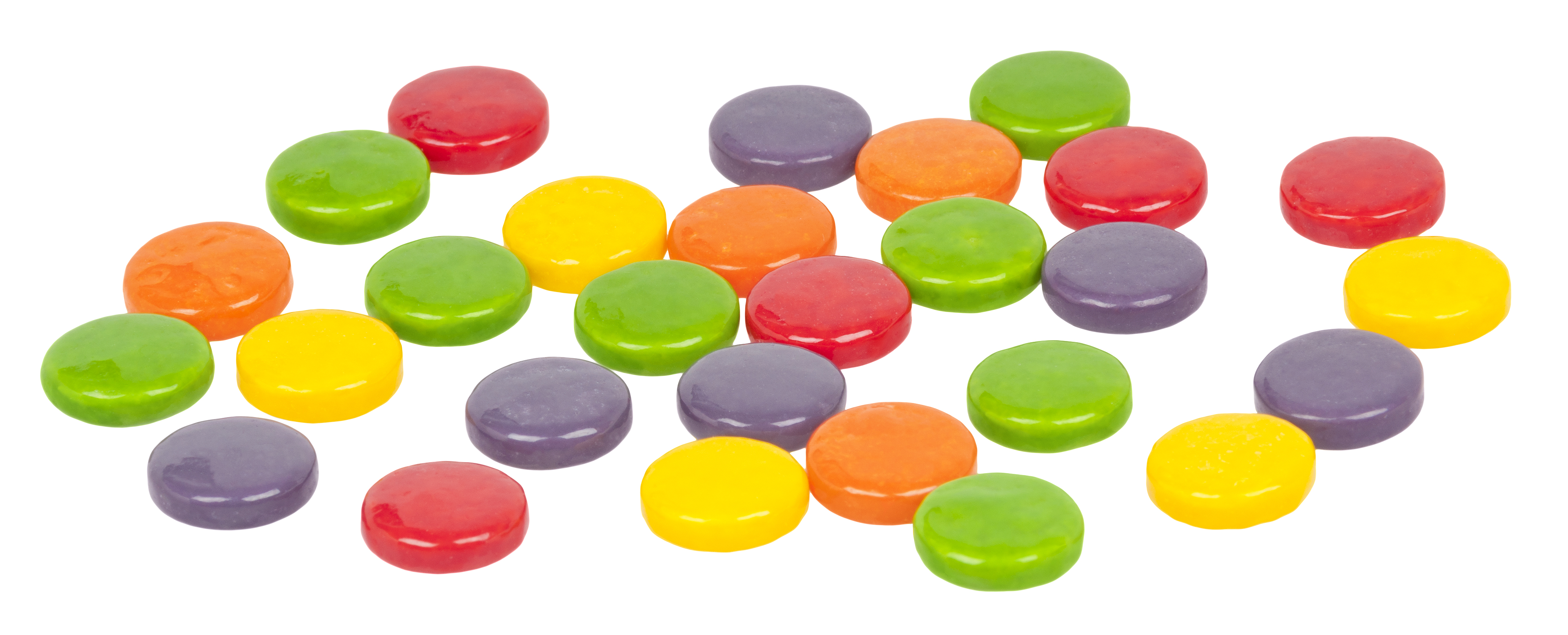 Spree candies, made by the Willy Wonka Candy Company.